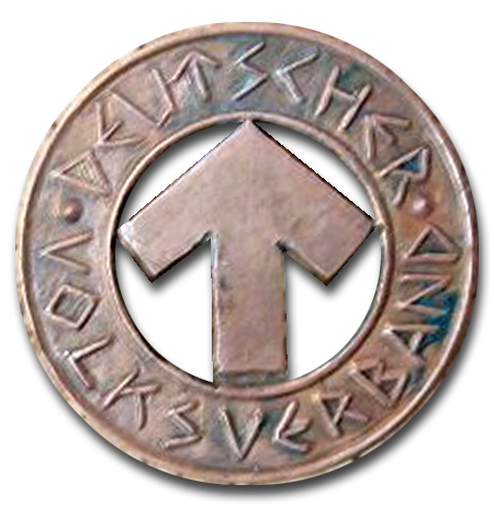 Lapel pin with logo of the Deutscher Volksverband in Polen (DVV), or the German People's Union in Poland, a Nazi German extreme right-wing political party founded in 1924 in central Poland by members of the ethnic German minority